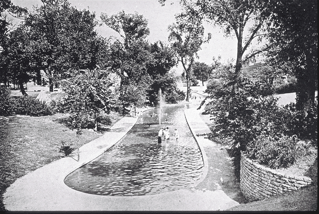 The Paseo, The Paseo at 17th Street, Kansas City, MO, The Library of Congress, American Memory. Photographed 1906, repository, Harvard University Graduate School of Design, Frances Loeb Library, Gund Hall, 48 Quincy Street, Cambridge MA 02138, Part of Images of America: Lantern Slide Collection, Digital ID mhsalad 060116